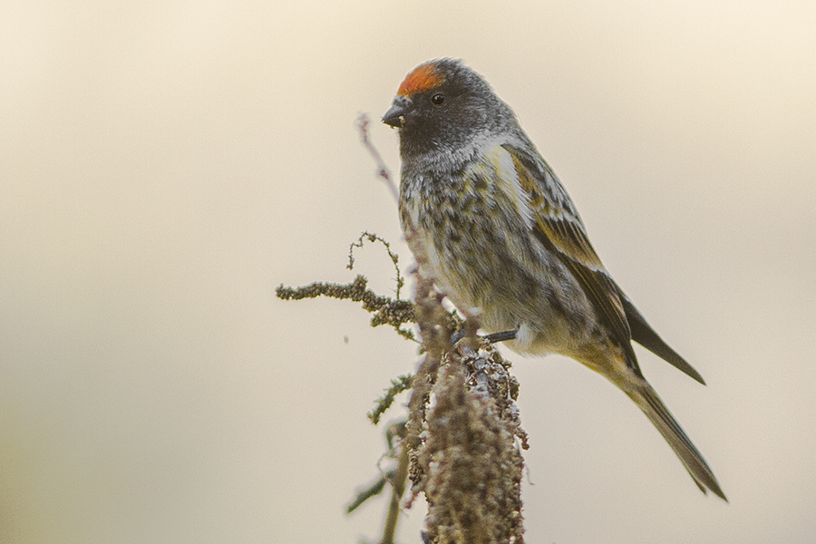 The specie Fire-fronted Serin had been photographed from Nainital district of Uttarakhand in India on 31.01.2015. during the bird photography trip of GoingWild at Uttarakhand.